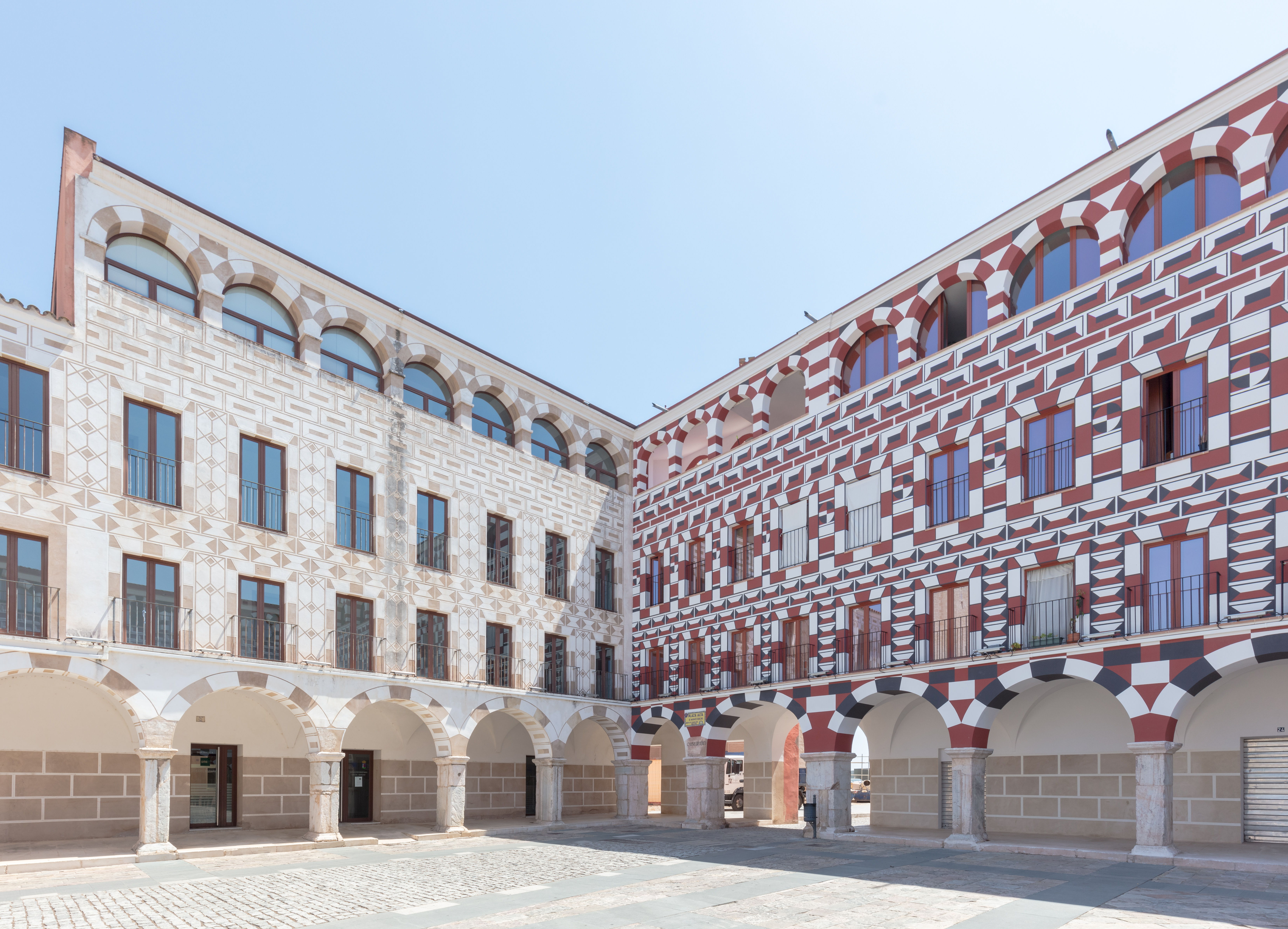 Casas Coloradas, Plaza Alta, Badajoz, Spain